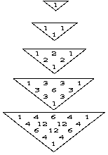 Made by Romero Schmidtke